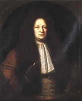 The swedish Baron Bengt Roshenhane (1639-1700). Portrait by David Klöcker Ehrenstrahl.